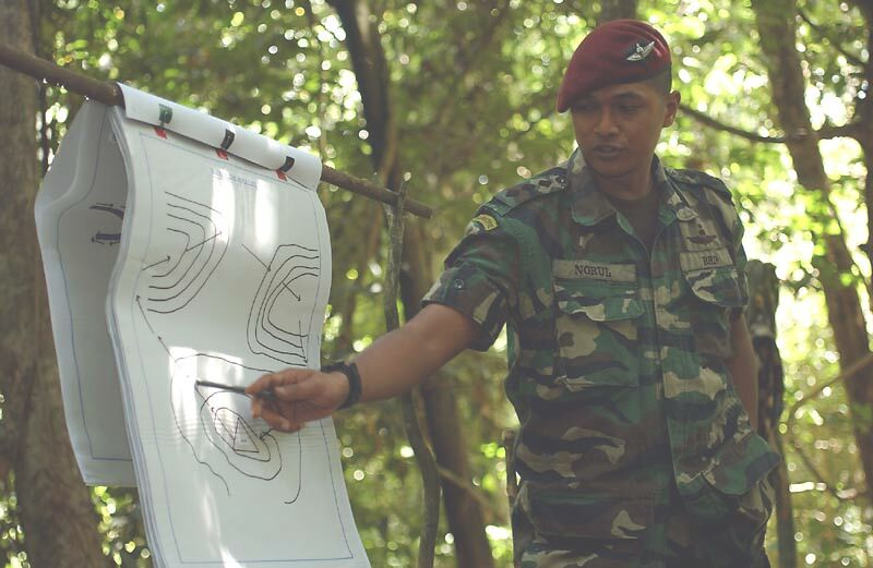 Exercise COOPERATION AFLOAT READINESS AND TRAINING (CARAT) 2002 brought naval forces of Brunei, Indonesia, Thailand, Malaysia, Singapore, the Philippines, and the U.S. together for a series of bilateral exercises. Here, Capt. Norul Hisyam of the 8th Royal Ranger Regiment, Malaysian Army, teaches patrol, ambush, and jungle attack to U.S. Marines and sailors. PHOTO BY LCPL. ANTONIO J. VEGA, USMC